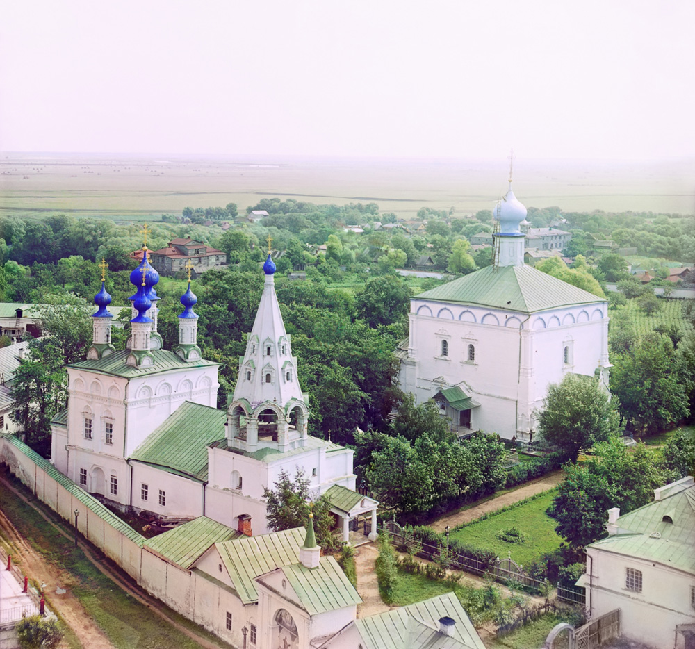 Ryazan. Spassky Monastery with south-west (1912, S.M. Prokudin-Gorsky)